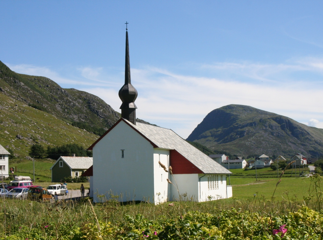 Ervik chapel, Stadlandet, Norway